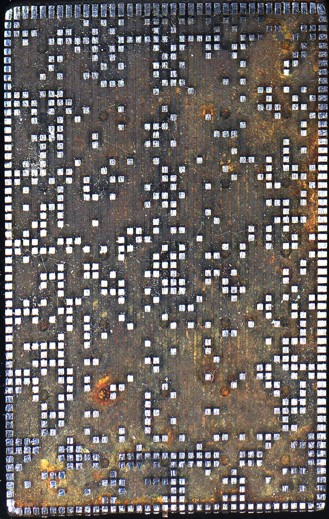 As long as I can remember, my father had this tie clip. I believed that it was his name in some punchcard format. Not long after he passed away, in December of 2008, this tie clip came into my possession, and I noticed that there were a lot more bits on it than it would take to encode anyone's name. It didn't take much research for me to realize that it didn't match any known punchcard format that I could find. eventually, I found Wikipedia:File:IBM-026_wireplate.jpg on the Keypunch article— a picture of an almost-identical metal plate, with the same binary pattern. as it happens, this plate is apparently a part from a 1940s- or 1950s-vintage IBM-26 keypunch machine, a rather primitive Read Only Memory (ROM) containing data for printing characters in a 5×7 dot matrix. I'm uploading this image, now, because I think that the Wikipedia:Keypunch article could use a better-detailed image of this plate. The extant image is more “natural” showing the part more in its original form, without it having been made into a piece of jewelry, but my image gives a better view of the actual binary pattern stored on it. I've rotated my image to match the orientation of Wikipedia:File:IBM-026_wireplate.jpg.